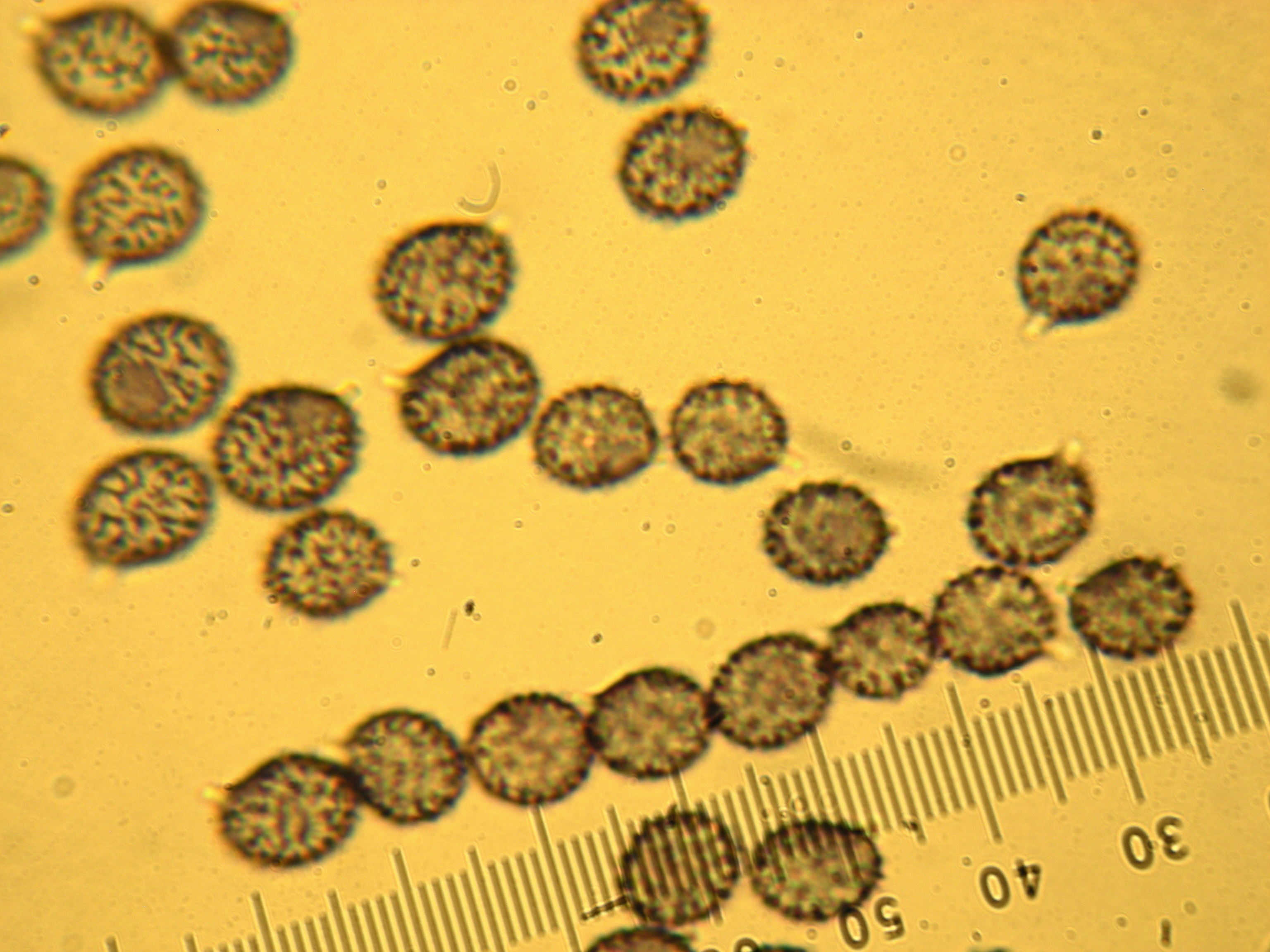 Russula xerampelina (Schaeff.) Fr. Image location: Jenkinson Lake, El Dorado Co., California, USA Spore print a orangish yellow. Spores~ 8.0-9.8 X 7.0-8.1 microns. Recognized by sight For more information about this, see the observation page at Mushroom Observer.